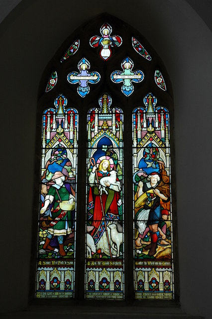 Gothic Revival stained glass window west window of St Michael's parish church, Whichford, Warwickshire